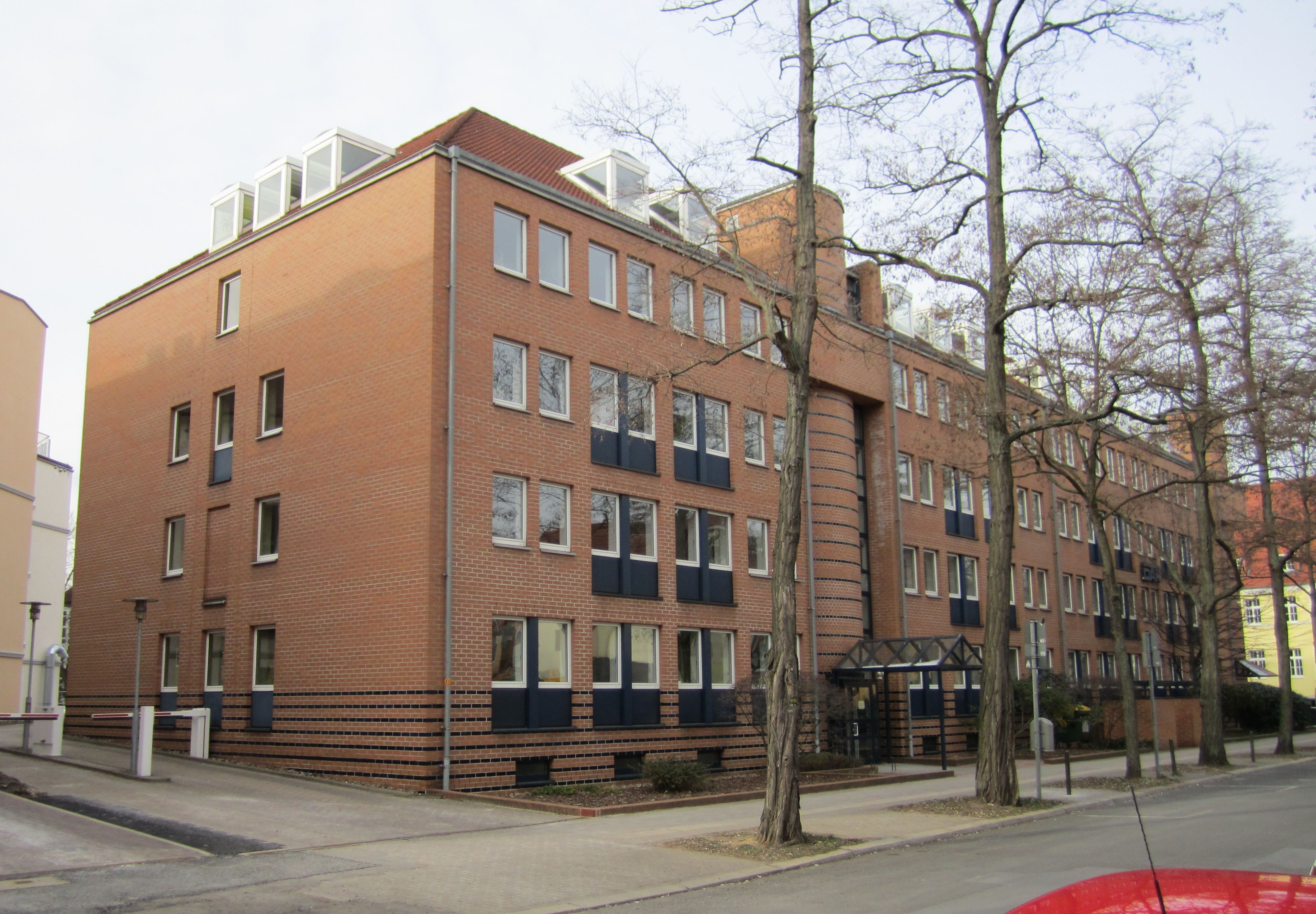 Employment Tribunal, Hanover, Germany.